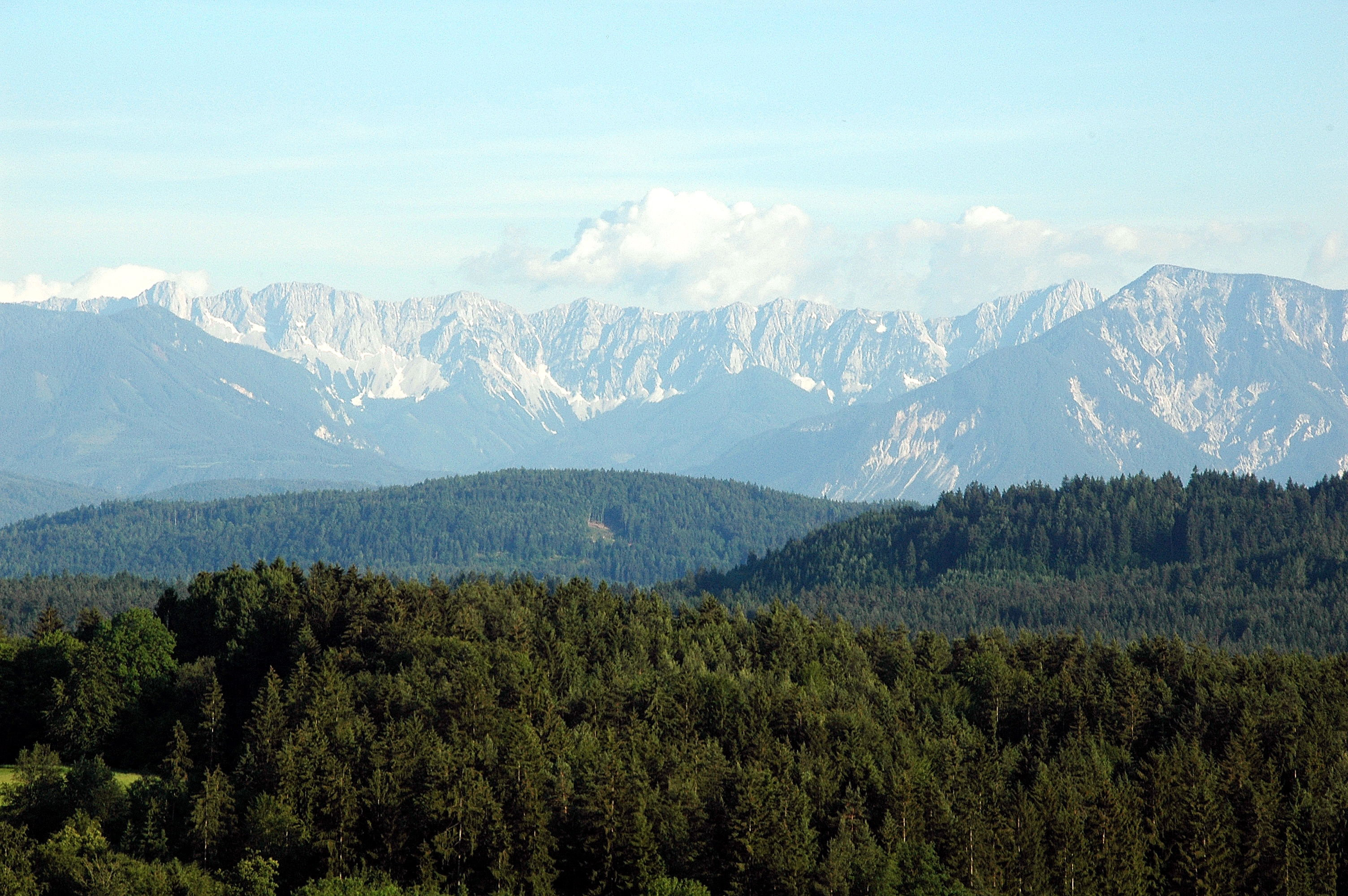 View from Faning at the Karawanken mountains, Carinthia, Austria